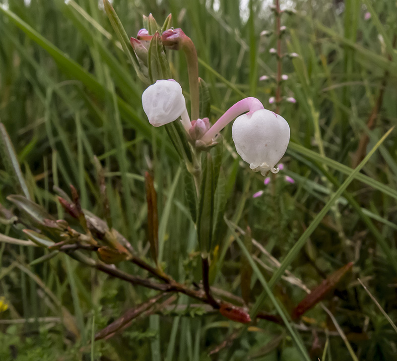 Andromeda polifolia in the Haaksbergerveen, The Netherlands